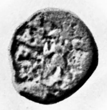 Brahmamitra, Mitra dynasty, 2-1st century BCE, Mathura